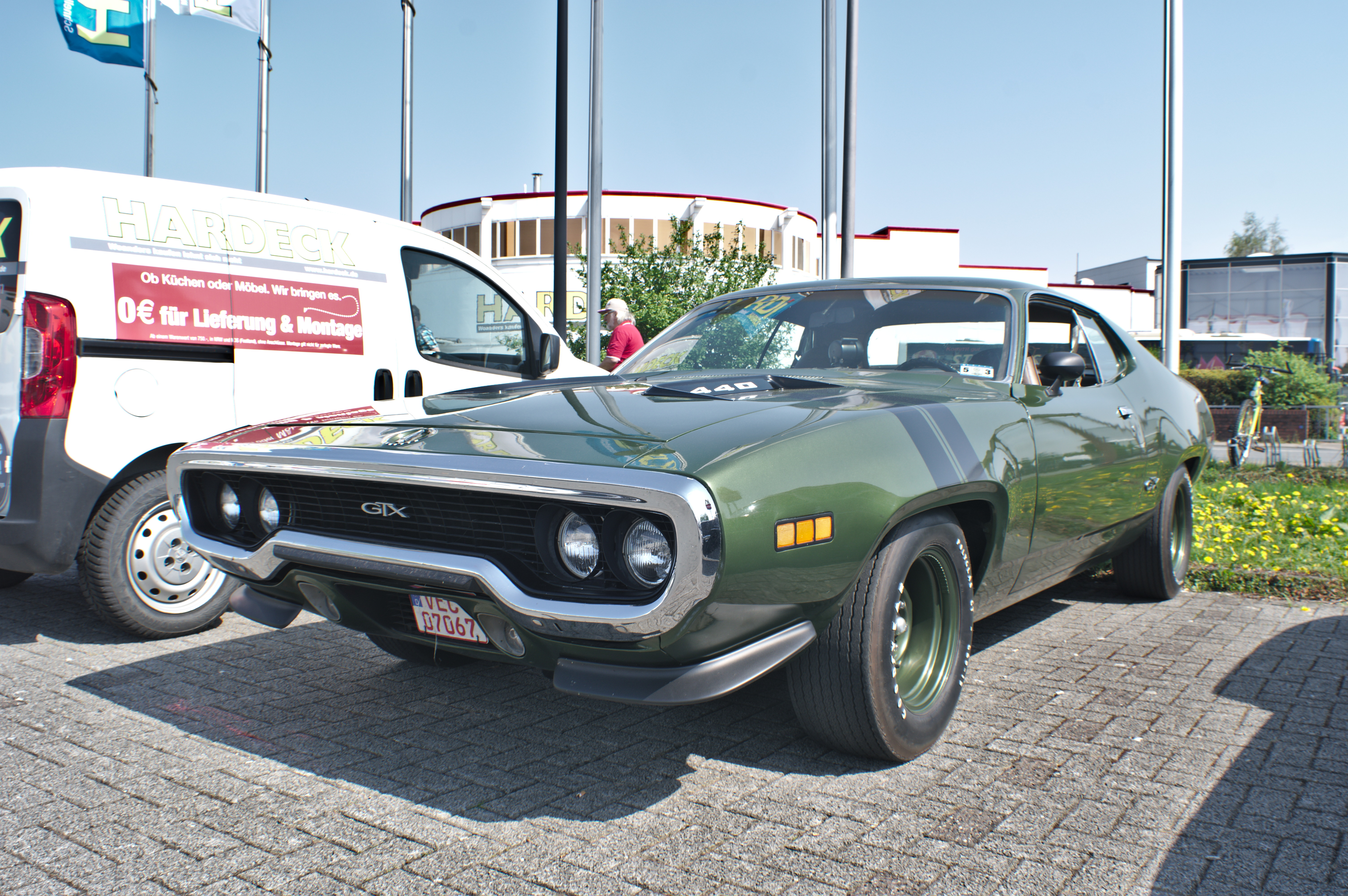 American Freeway Car Club Treffen 2018